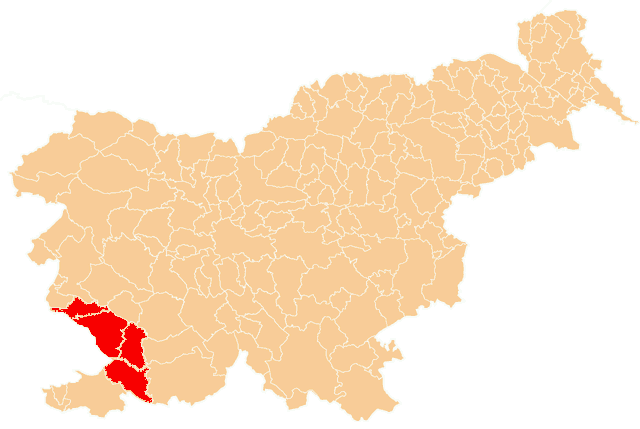 Map of Kras in Slovenia.